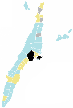 Result of the 2010 Cebu gubernatorial election per municipality. Tagalog: Resulta ng halalan para sa pang-punong-lalawigan sa Cebu noong 2010 sa bawat bayan.